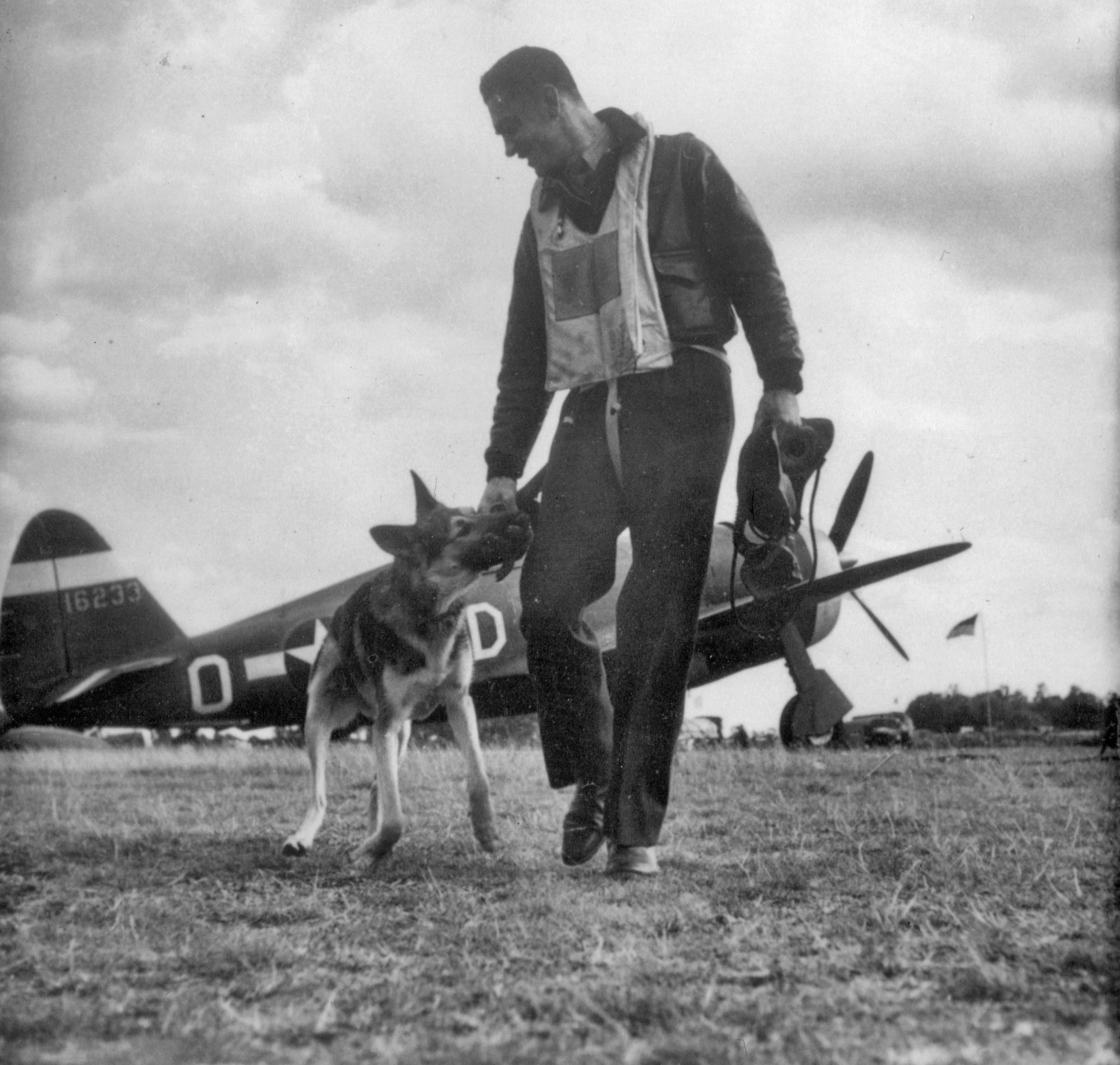 Lieutenant Howard Hively of the 335th Fighter Squadron, 4th Fighter Group with his dog mascot "Duke" and a P-47 Thunderbolt at Debden, 1 October 1943. Passed for publication 1 Oct 1943. Handwritten caption on reverse: '1/10/43. Lt. Howard Hively, [aged] 28, 4TFO.' 'Printed caption on reverse: MASCOT WELCOMES THUNDERBOLT PILOT Associated Press Photo show: "Duke" Police dog mascot of a P-47 Thunderbolt Squadron in England, playfully tugs at a glove of Lt. Howard D. (Deacon) Hively, 28, of Athens, Chic., after the pilot had landed his fighter after a mission over enemy territory. The U.S. Eighth Air Force pilot is credited with destroying one FW-190. AKP/LFS 261023